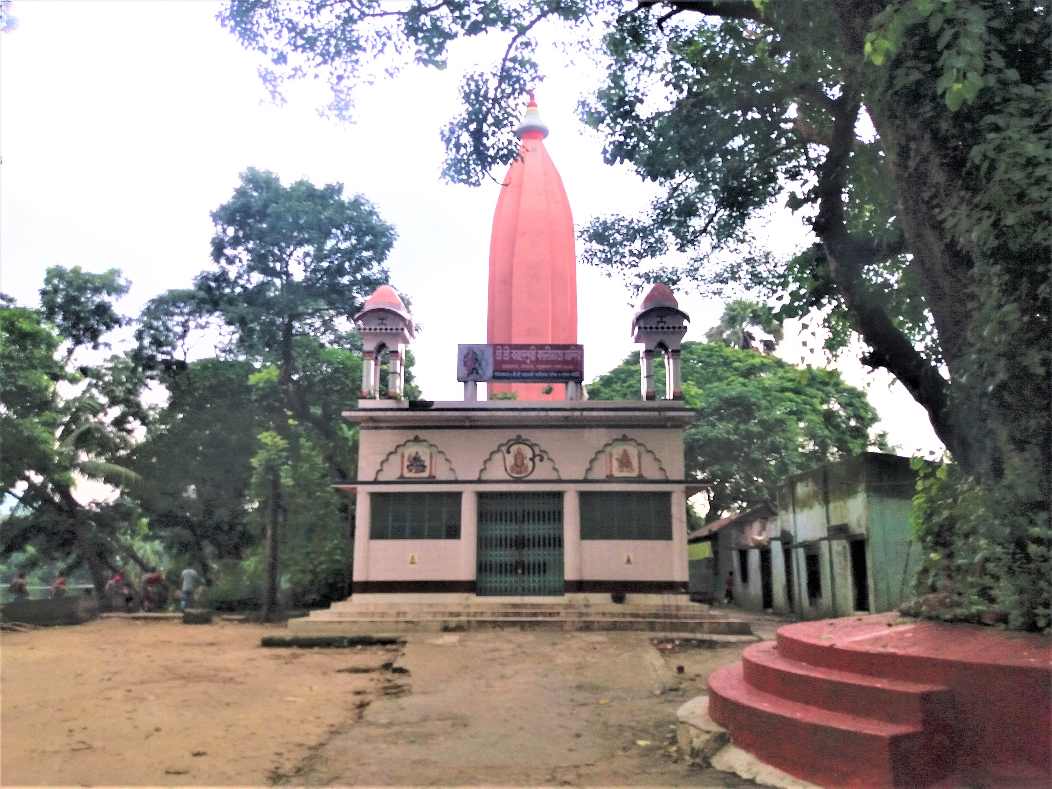 ঢাকার বাসাবোর রাজারবাগ এলাকায় হিন্দু দেবী কালীর একটি পুরাতন মন্দির